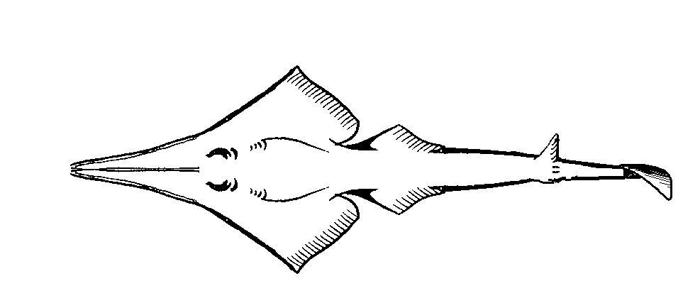 Micropristis solomonis